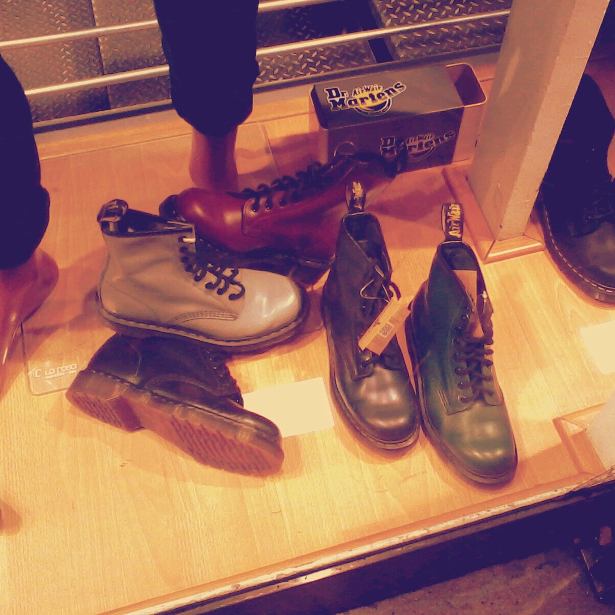 Dr. Martens 1460 in a Treviso showcase.